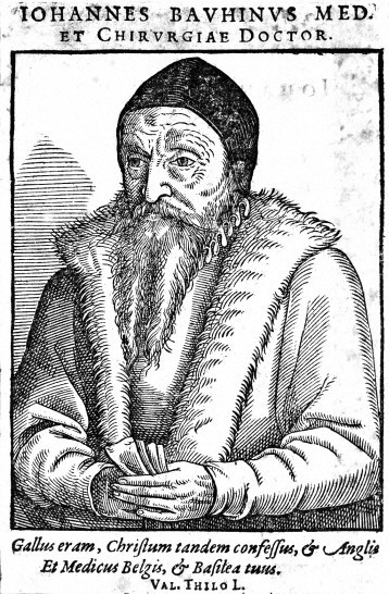 Jean Bauhin